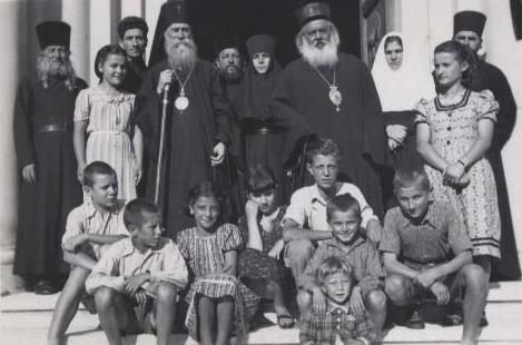 Lešok Monastery, 1938, Serbian archbishop Josif with monastic and nun’s brotherhood – day of sanctification of the new church St. Athanasius and St. Lazar